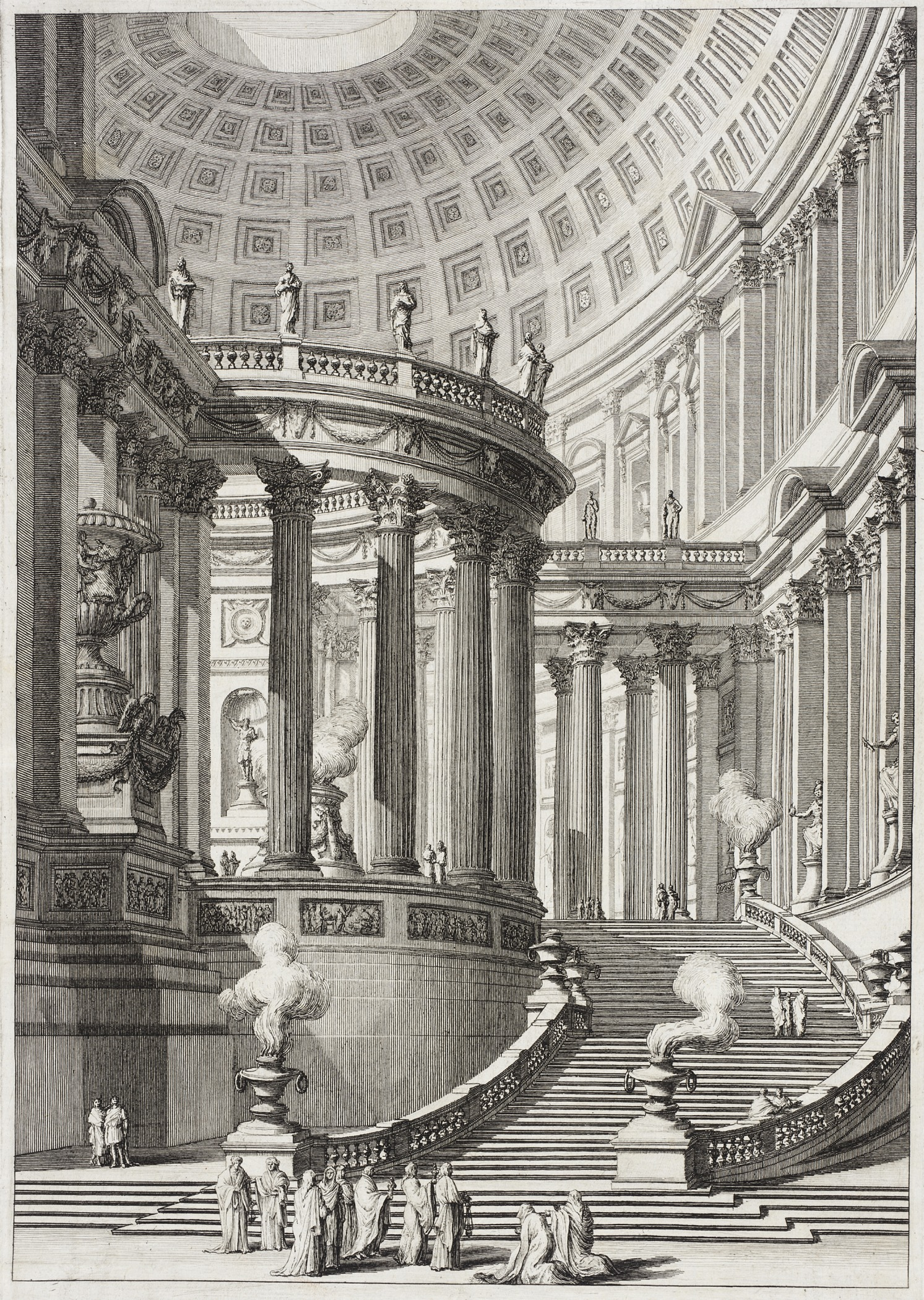 Italy, circa 1743 Alternate Title: Tempio antico Series: Prima Parte di Architetture e Prospettive, plate 13 Edition: First edition, third issue Prints; engravings Etching with engraving and drypoint Sheet: 13 3/4 x 18 1/16 in. (34.93 x 45.88 cm); plate: 9 5/8 x 14 3/16 in. (24.45 x 36.04 cm) Purchased with funds provided by Patricia and Michael Forman (AC1995.54.1.14) Prints and Drawings